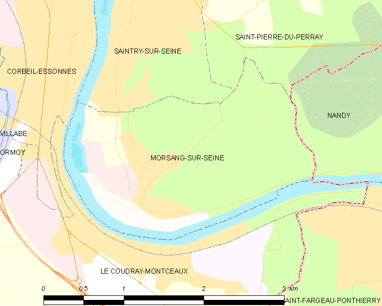 Map of French municipality Morsang-sur-Seine